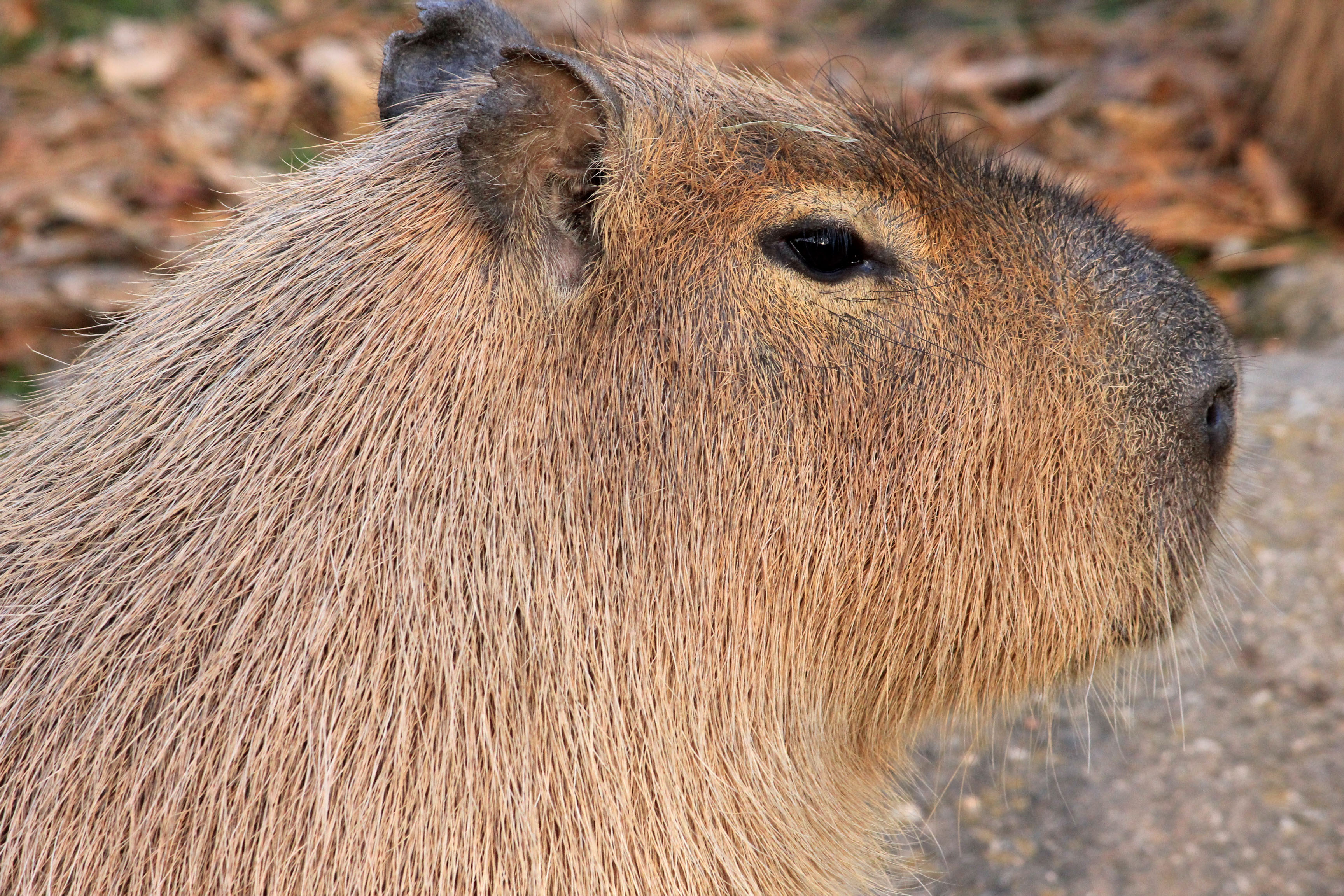 Our Warm-Blooded friends The side view of the face of a Capybara(Hydrochoerus hydrochaeris) .